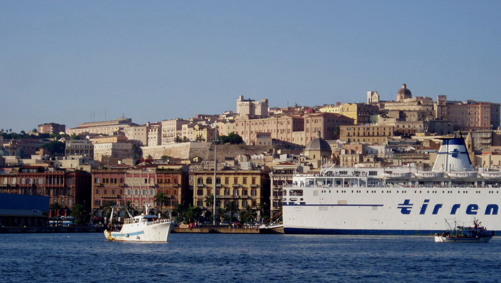 View of Cagliari from the sea